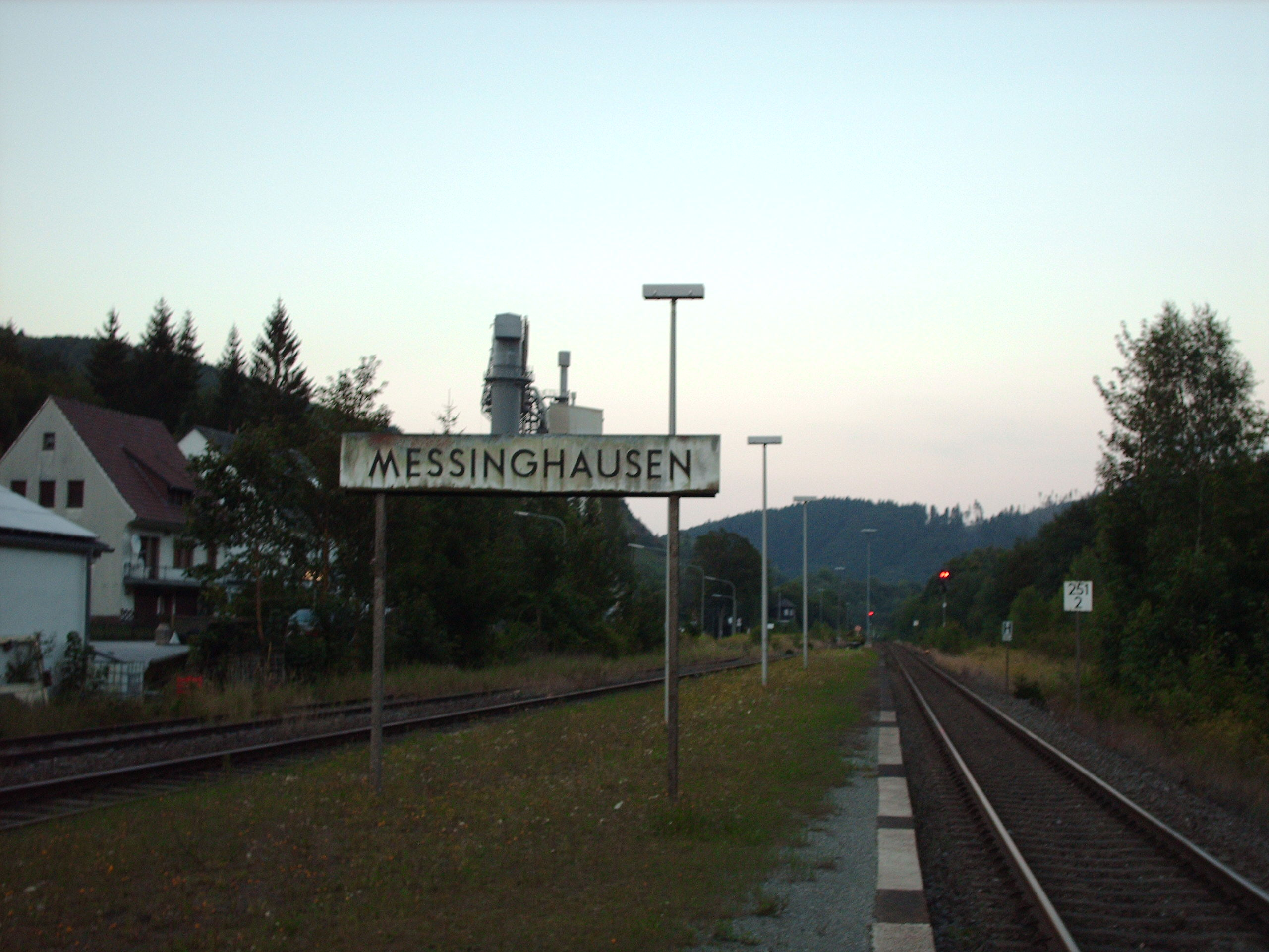 Messinghausen station, Brilon, Germany check usage